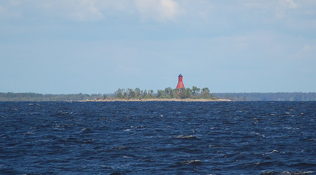 Unlit daybeacon (daymark tower) on the island of Laitakari. The tower is located ENE from Hailuoto and WNW from Oulu, at 65°3.15′N 25°9.47′E / 65.0525°N 25.15783°E.